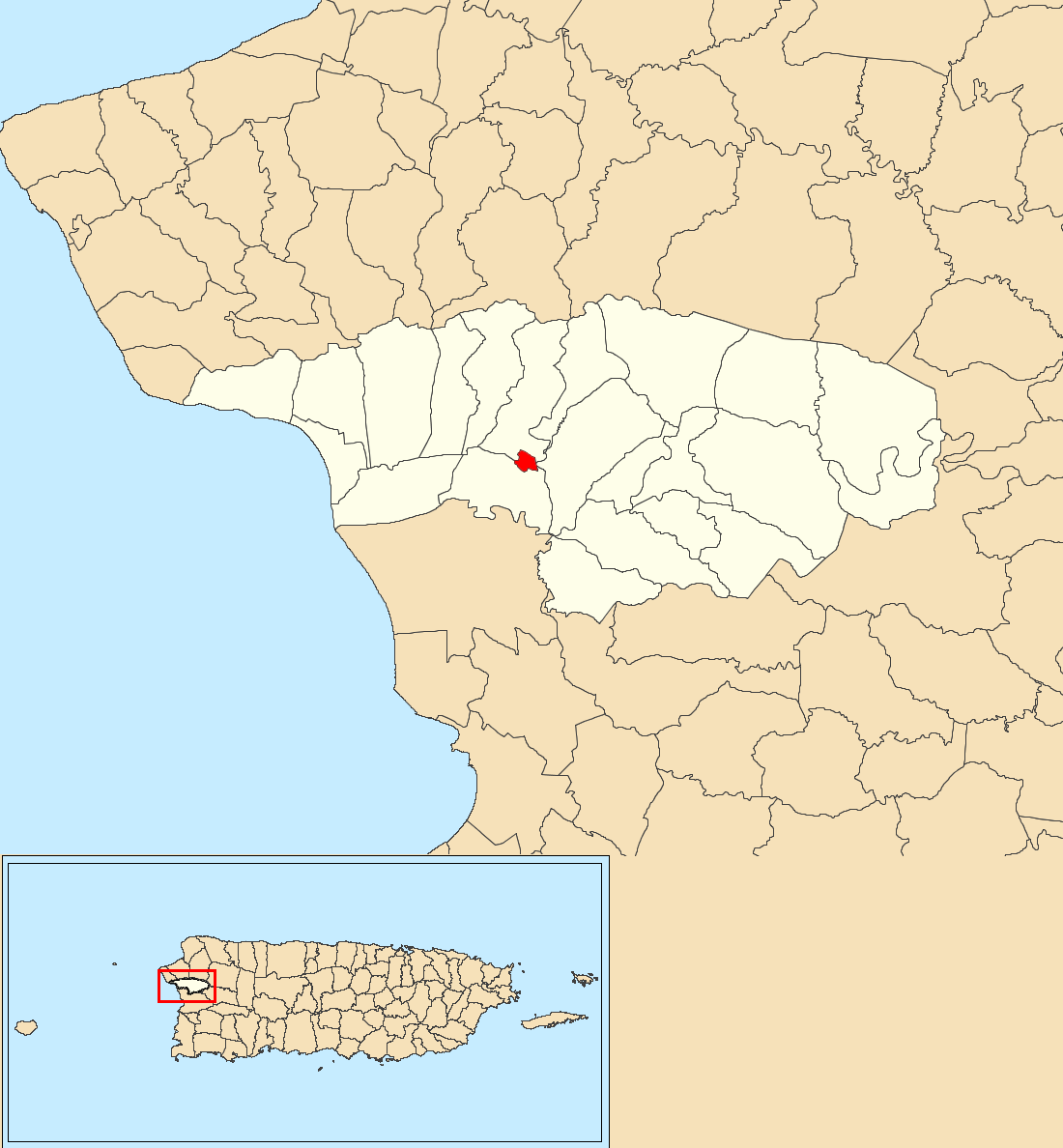 Añasco barrio-pueblo, Añasco, Puerto Rico locator map